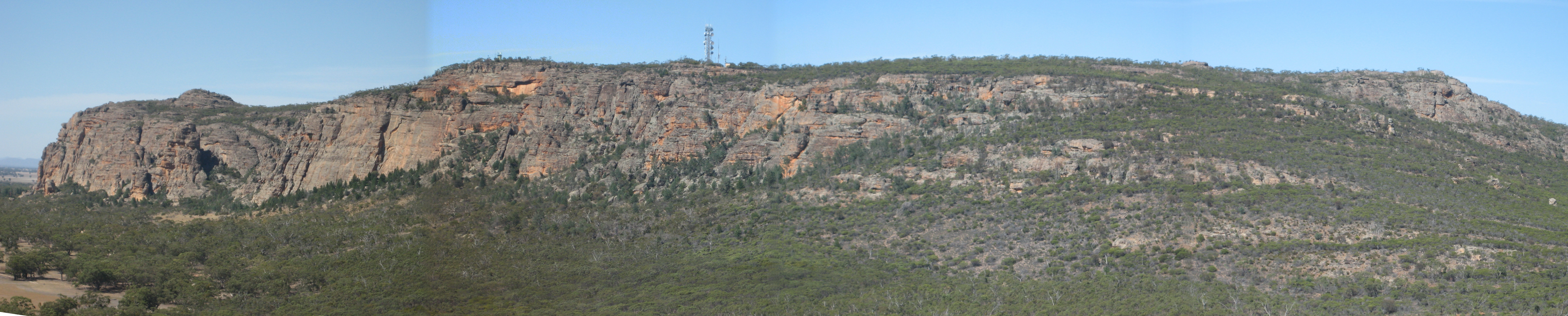 Panorama of Mount Arapiles taken from Mitre Rock. Visible are the Pharos and the Watchtower, among others.